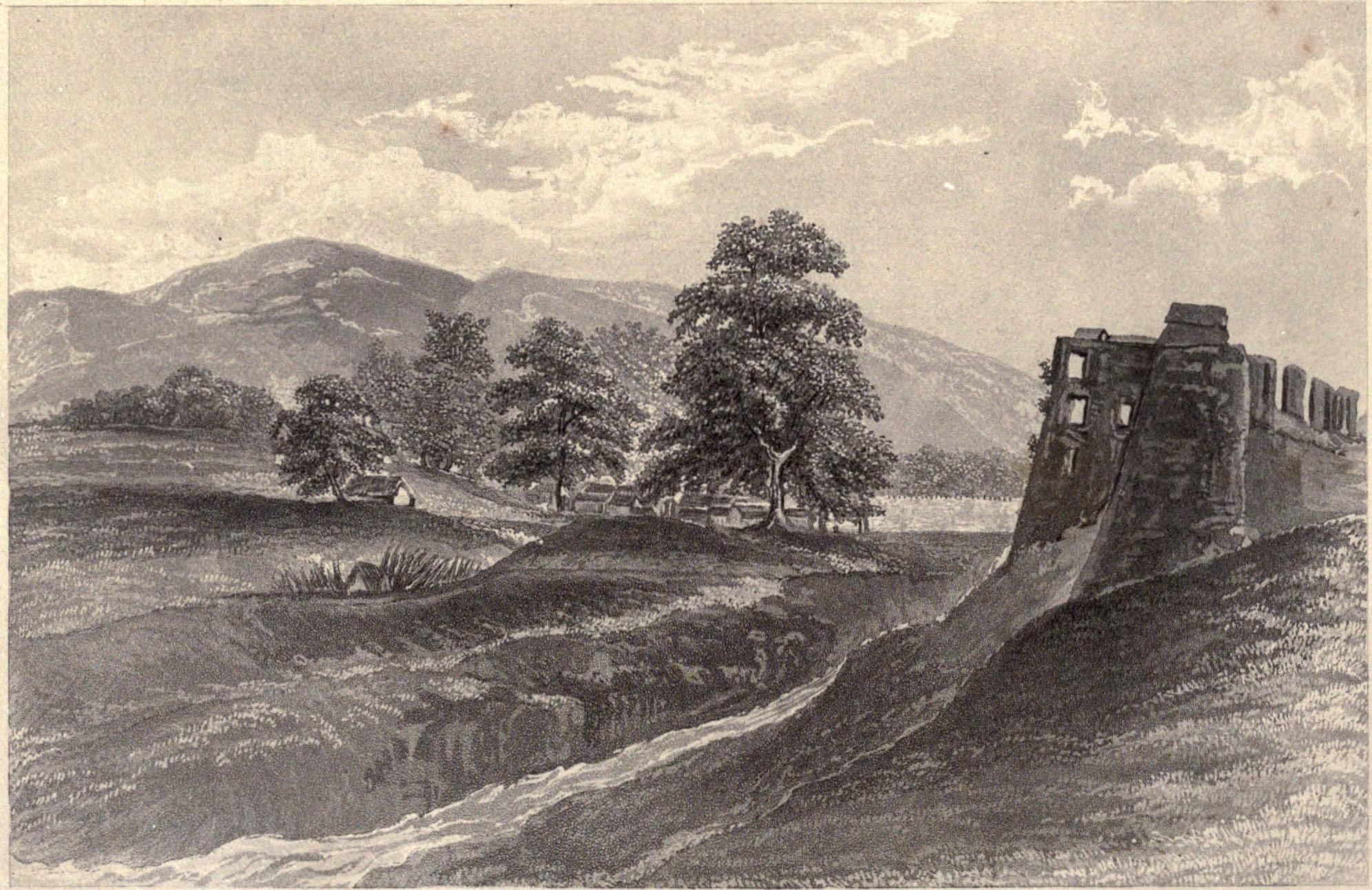 The spot where he fell, the site of William Thornton Bate's death.